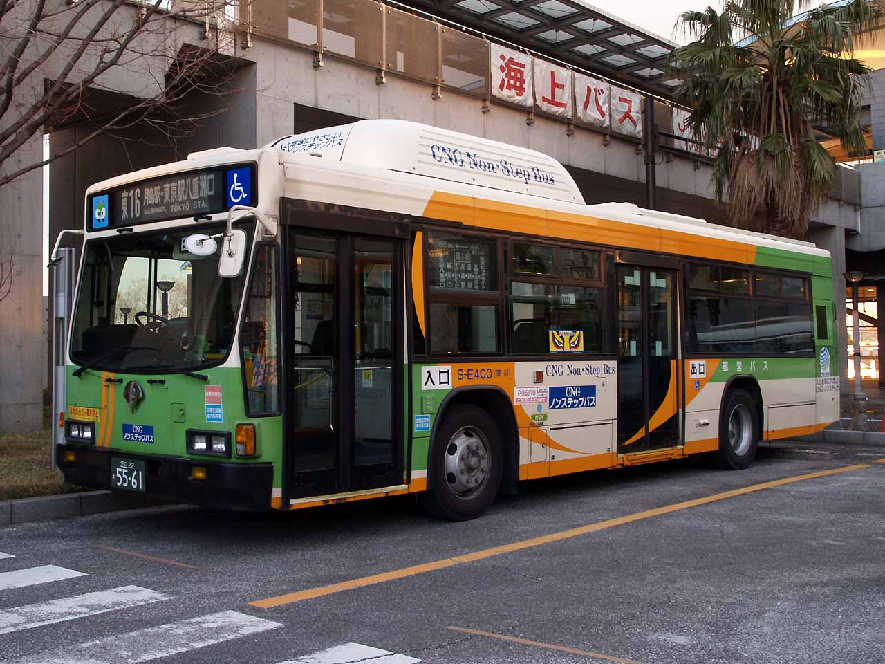 The 1st group of CNG Non-step low floor city bus in Japan. Model: Isuzu Cubic KC-LV832L-kai License plate: TKA22KA5561 Place:Tokyo Big Sight, Ariake, Koto ward, Tokyo Japan